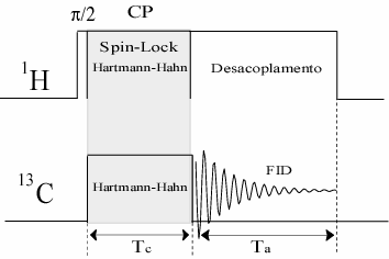 Sequência de pulso Polarização cruzada estabelecimento da condição de Hartmann-Hahn ω1H = ω1C. Tc é o tempo de contato térmico, Ta é o tempo de aquisição.